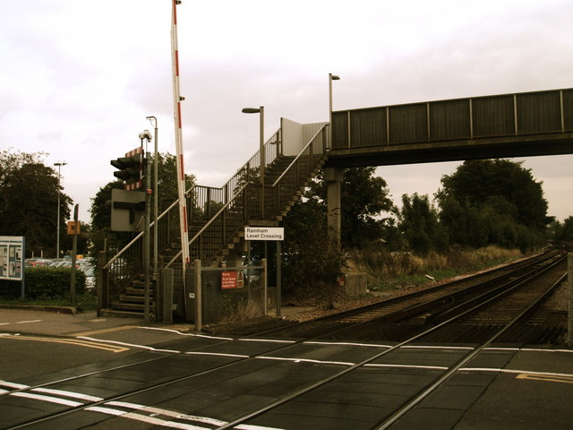 Rainham Level Crossing